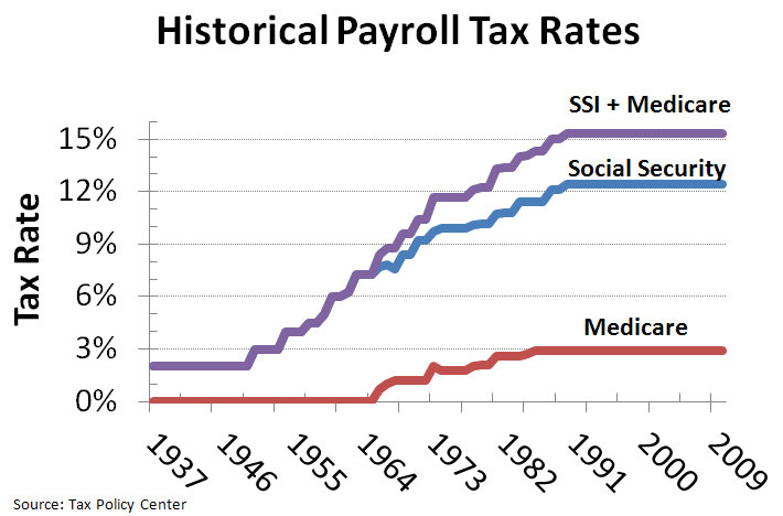 Historical payroll tax rates. Payroll taxes include employer and employee contributions. Payroll taxes are a combination of social security and medicare taxes.